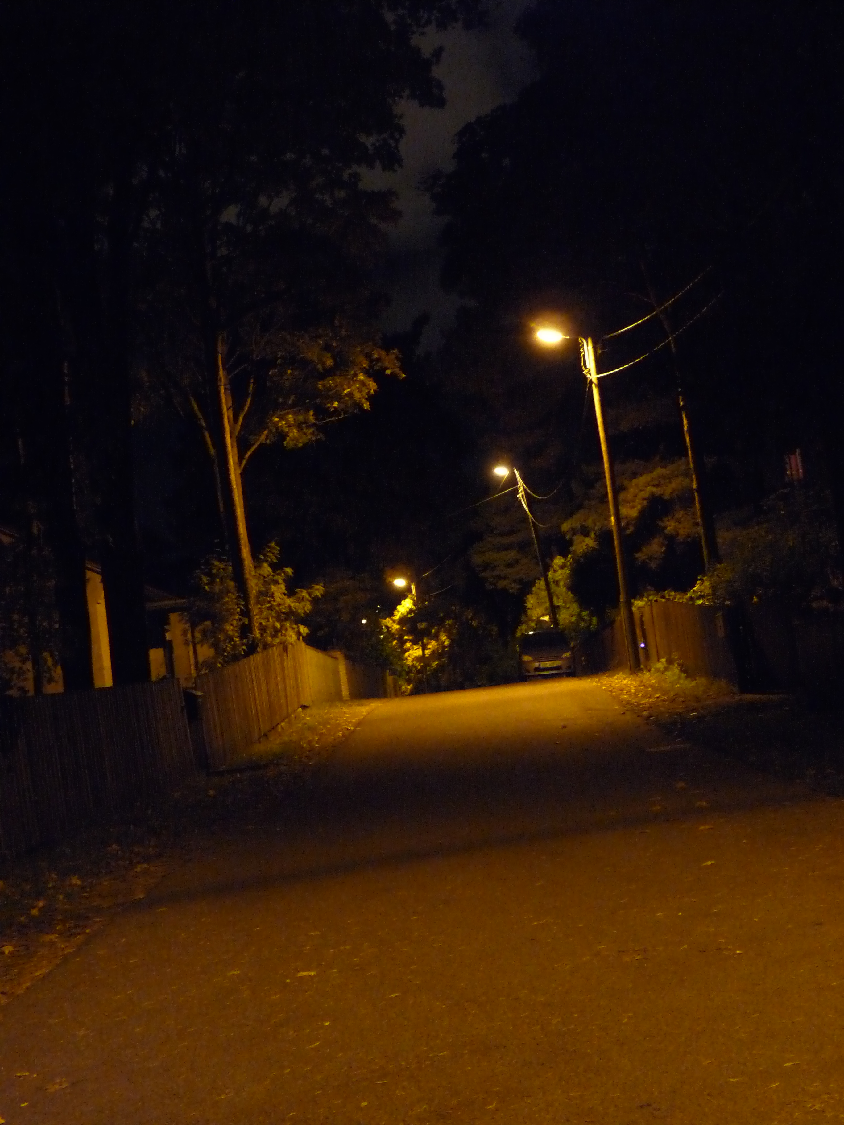 Risti street in Tallinn, Estonia